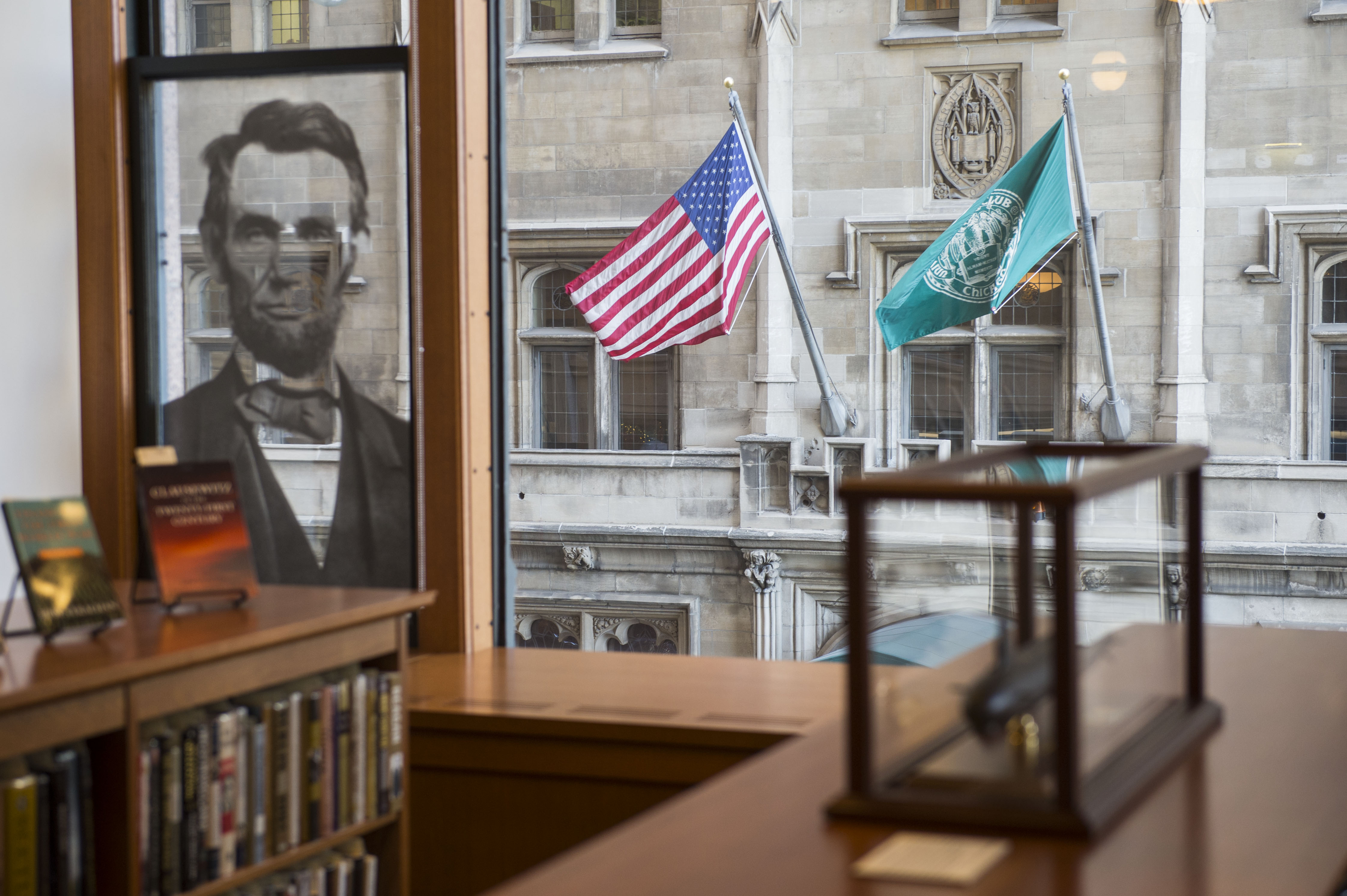 U.S. Army Chief of Staff, Gen. Mark A. Milley, is given a tour of the Pritzker Museum and Library, a non-profit organization in Chicago, Il., November 16, 2016. (U.S. Army photo by Sgt. 1st Class Chuck Burden)